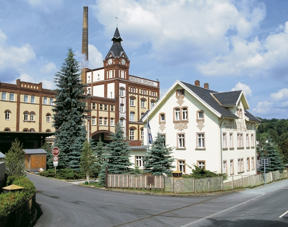 ansicht auf das Einsiedler Brauhaus